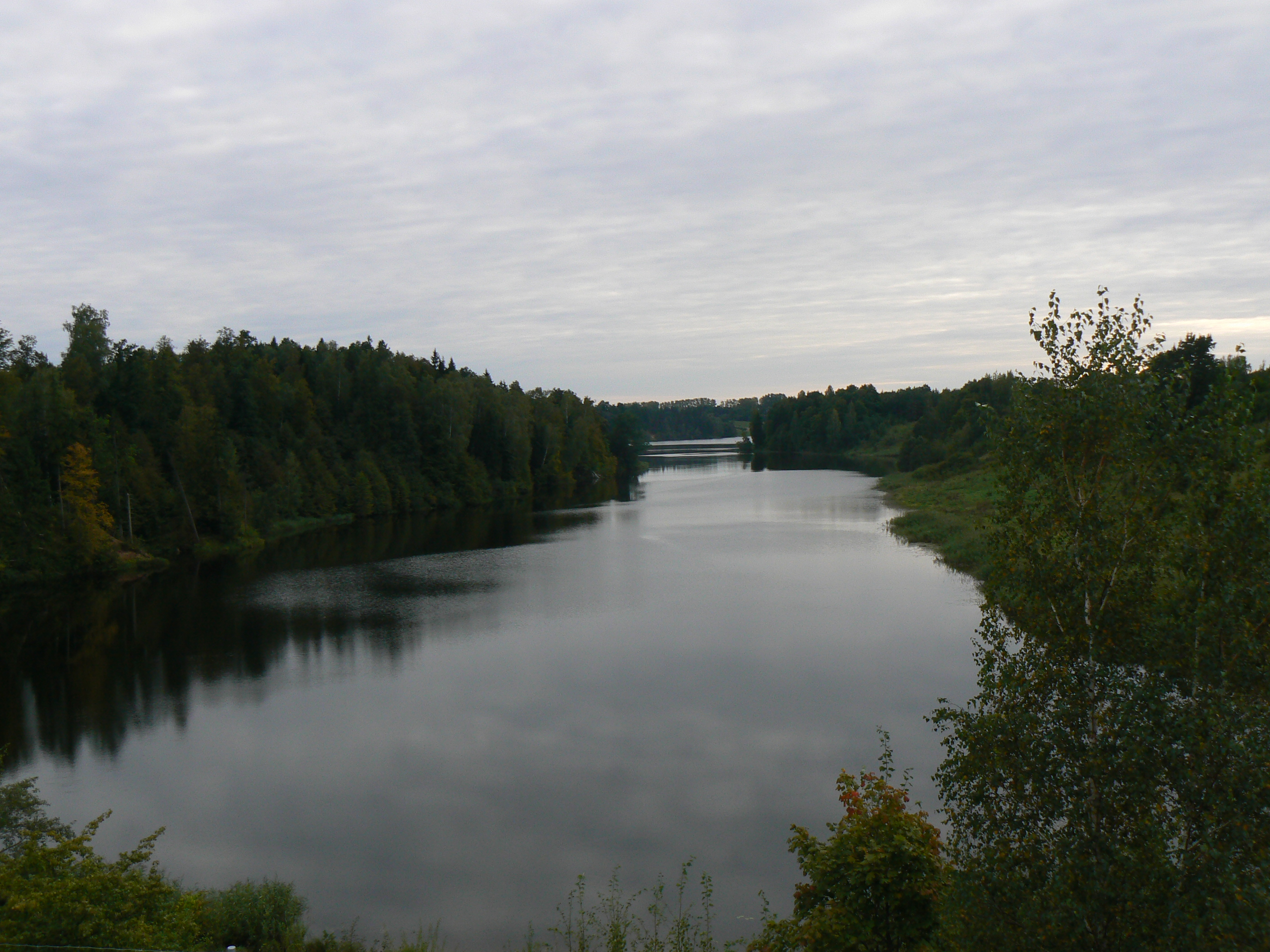 River Gynėvė from highway A1